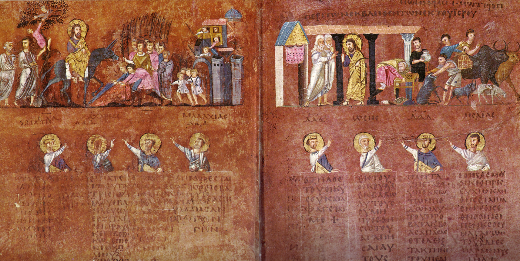 Miniuatura_del_codice_purpureo,_cattedrale_di_rossano_calabro Codex Purpureus Rossanensis, end of V, beginning of VI century